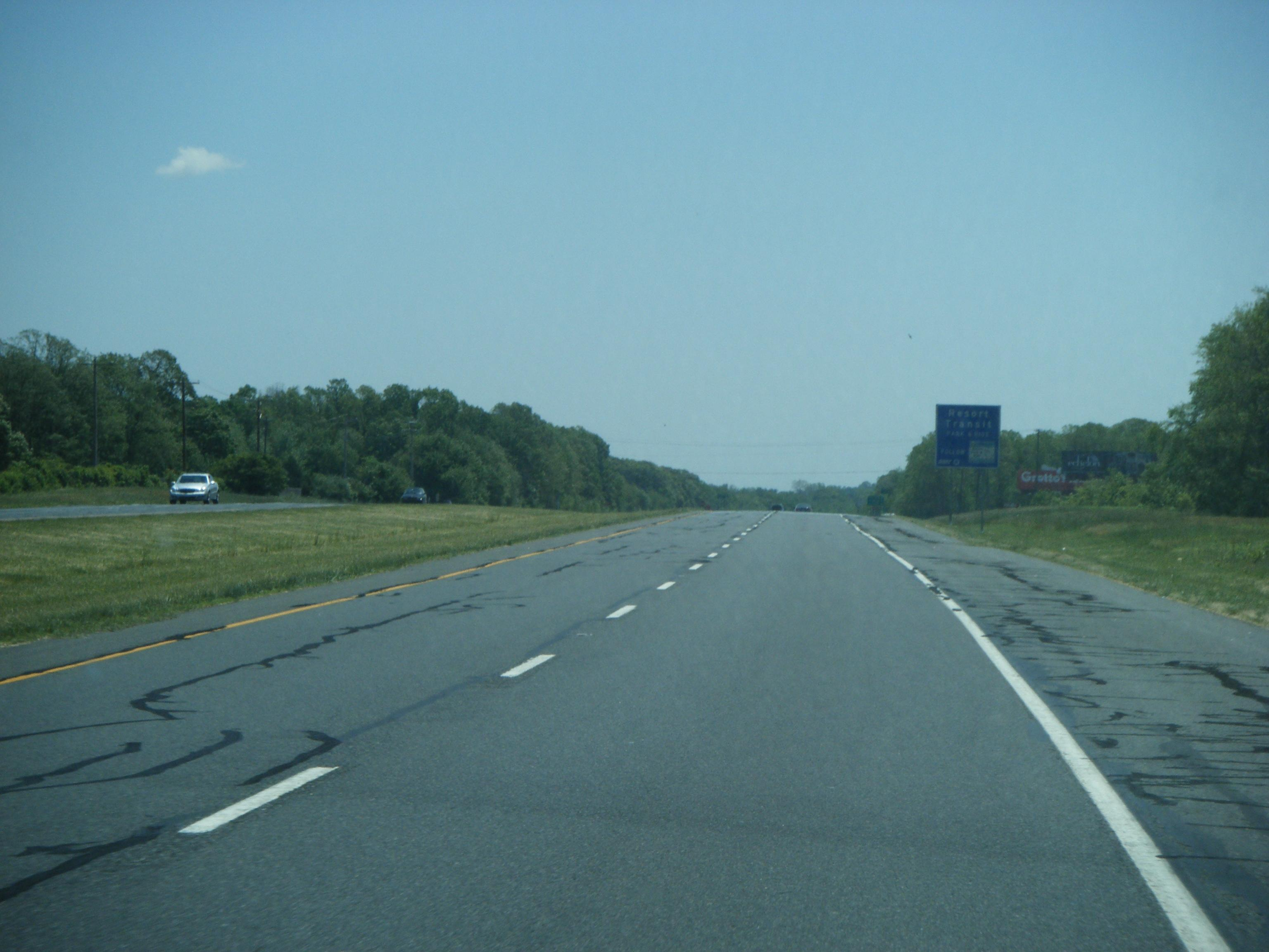 Southbound Delaware Route 1 approaching Tenth Street in Milford, Delaware.